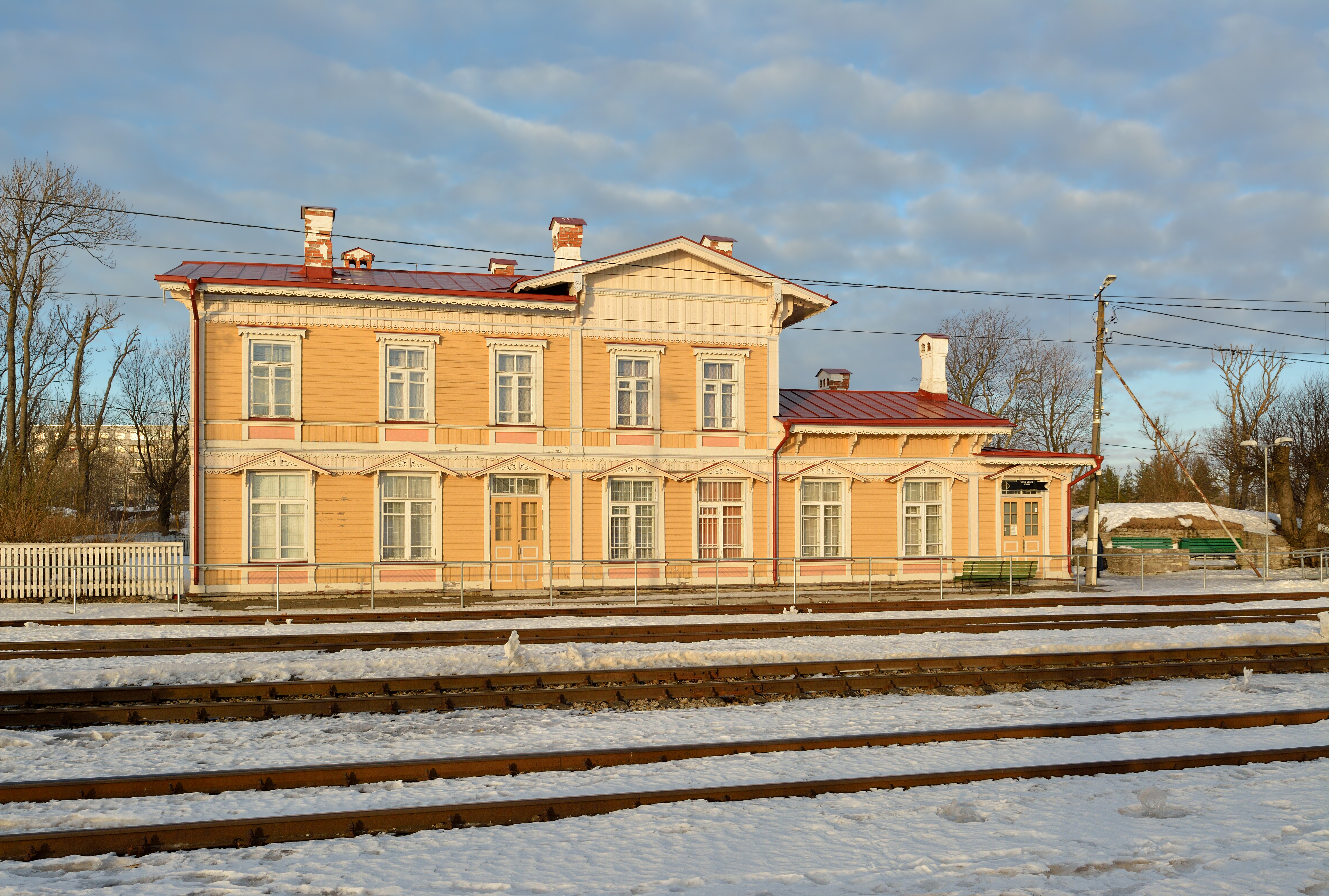 Paldiski railway station main building, built in 1870.